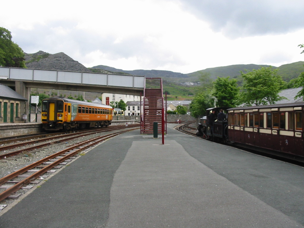 Blaenau Ffestiniog railway station - On the left of the picture, Arriva Trains Wales British Rail Class 153 DMU 153327 stands at the standard gauge platform for a Conwy Valley Line service. While on the right of the picture the narrow gauge Ffestiniog Railway locomotive Linda is about to run-round the train in preparation for the journey to Porthmadog. Note also the different platform heights for the different gauges.